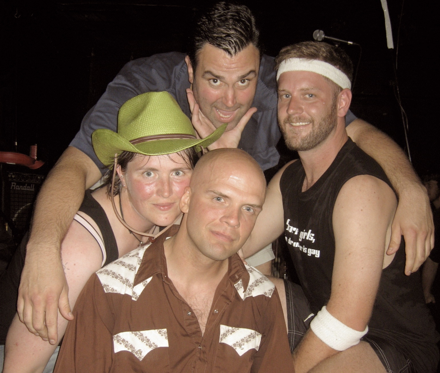 Group of photo of Best Revenge at reunion gig in August 2006. Clockwise from bottom: Ryan Revenge, KT, Frisky McNicholl, Bilito Peligro.